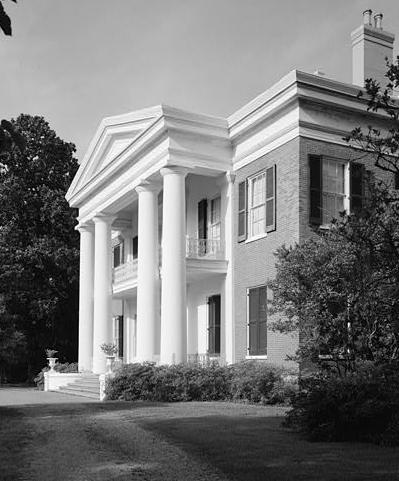 "Melrose" — View of north-west corner from west. Located at 1 Melrose - Montebello Parkway, Natchez, Mississippi, . Part of Natchez National Historical Park. Image courtesy of Historic American Buildings Survey—HABS.